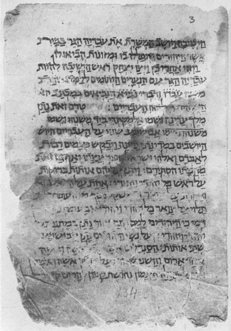 Cairo Geniza - Obadiah Scroll, Document VIII (Kaufmann Genizah Collection, MS 24, f. 2r)